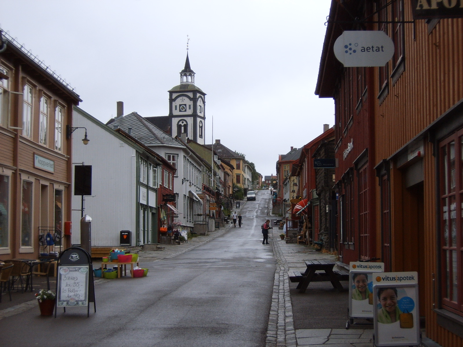 Center of the city, Roros, Norway, July 2005